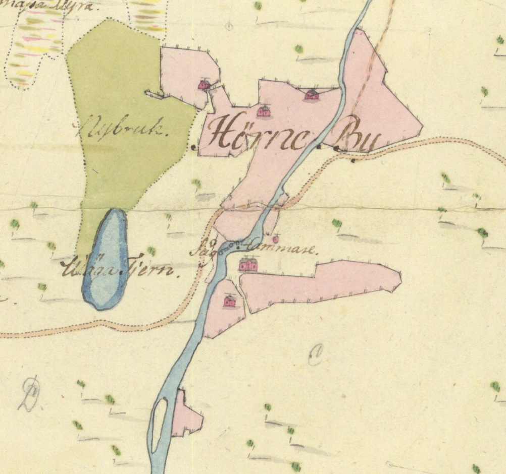 Part of map of the forests of the adjacent villages Hörne and Bäck in southern Västerbotten, Sweden, drawn in 1784.